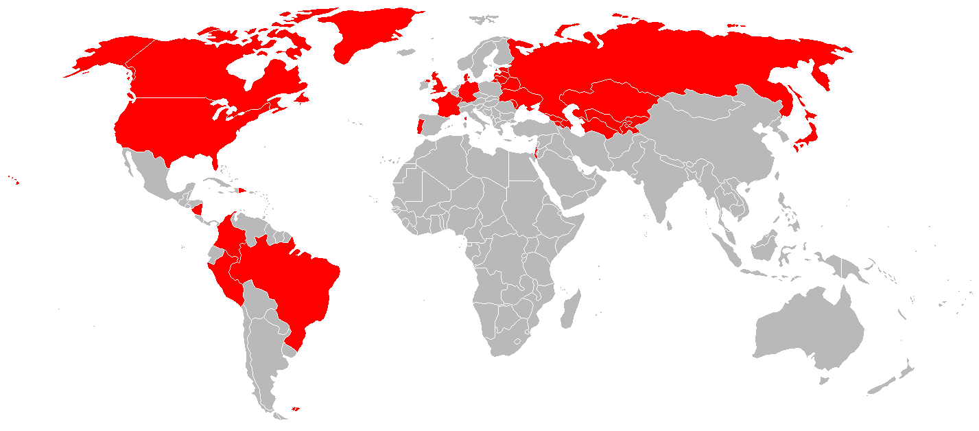 Map of military operators of the Boeing B-17 Flying Fortress